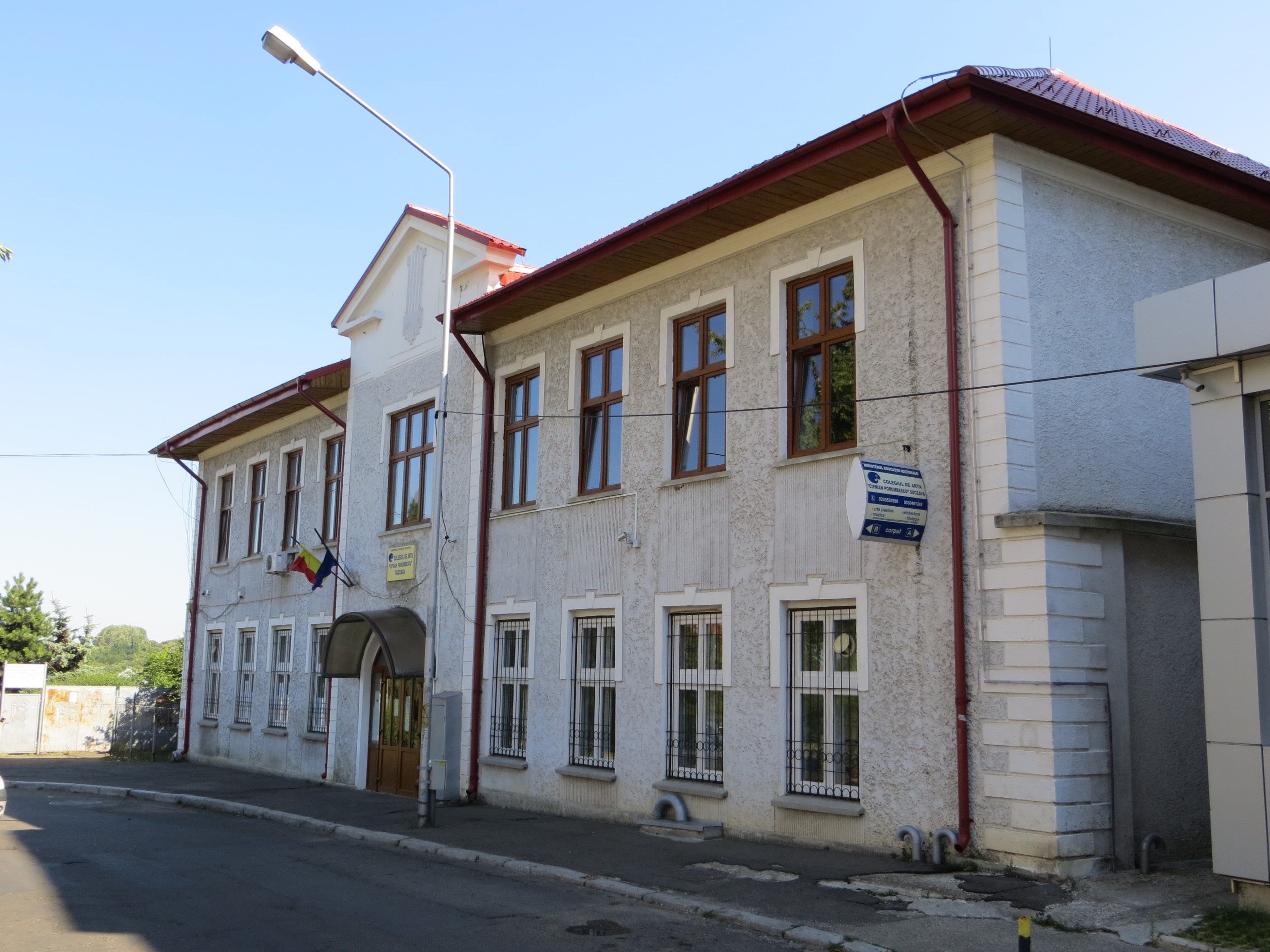 Ciprian Porumbescu Art College in Suceava.